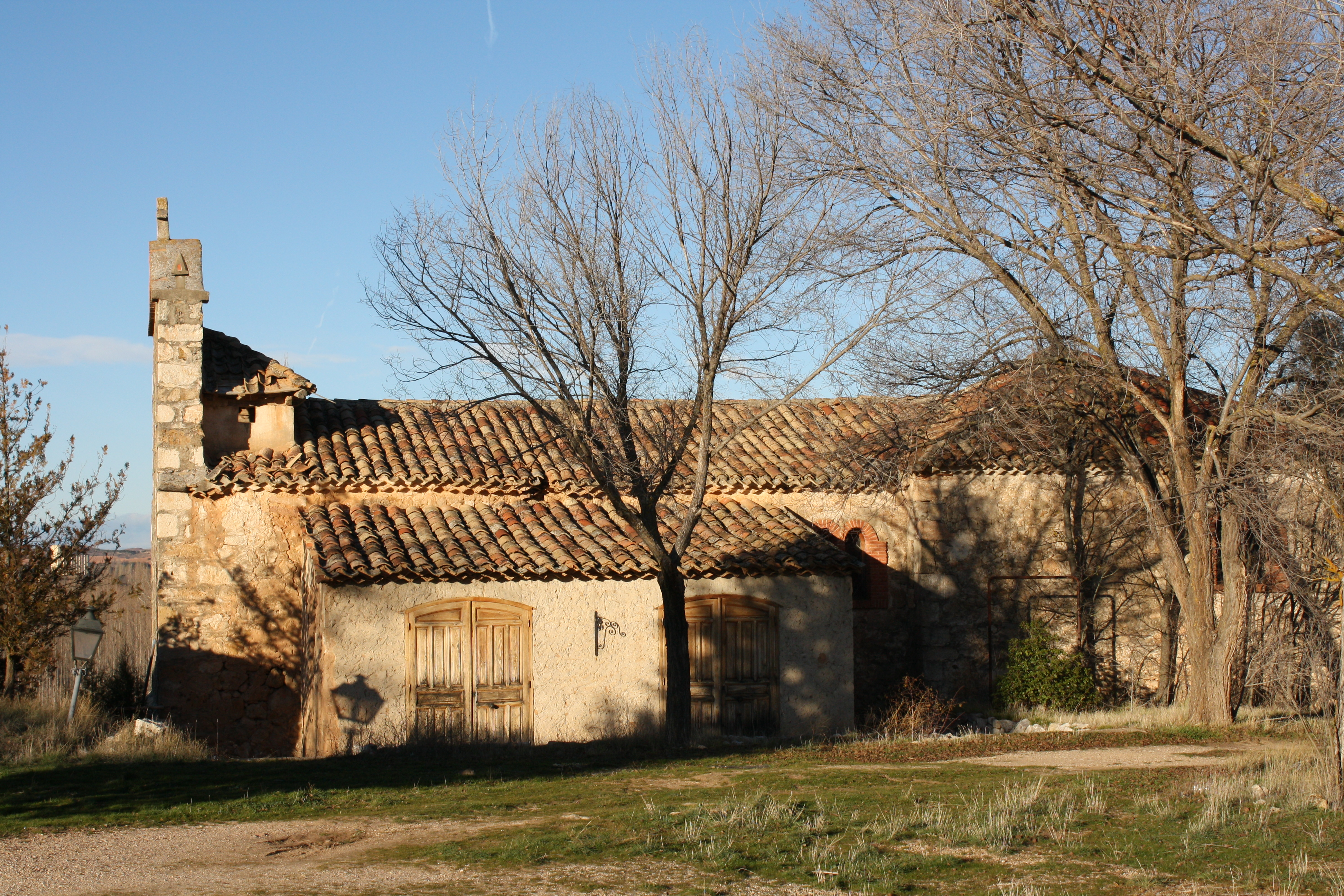 The Photo shows teh church of the historic village Navapalos in Spain